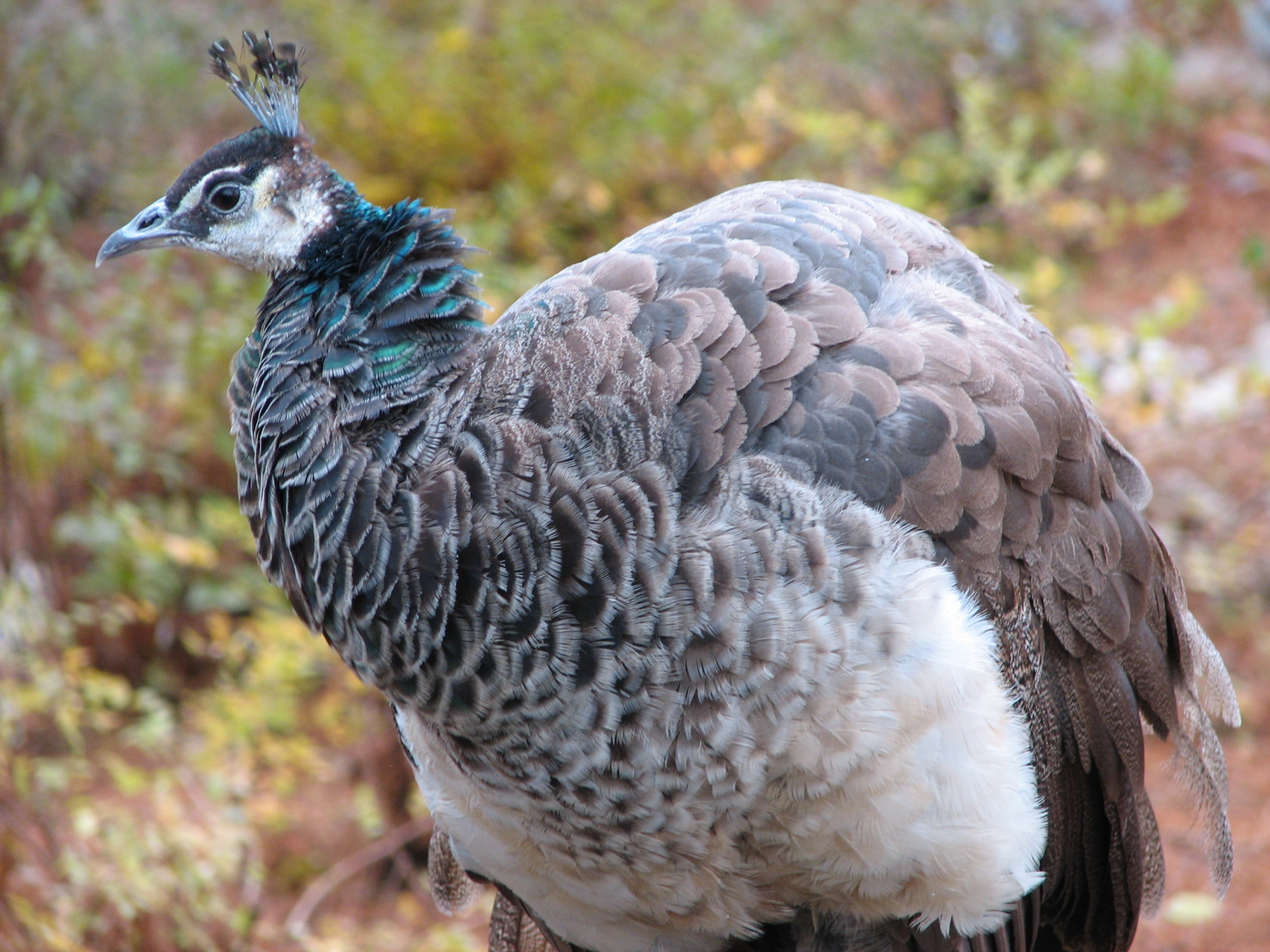 Female Blue Peafowl